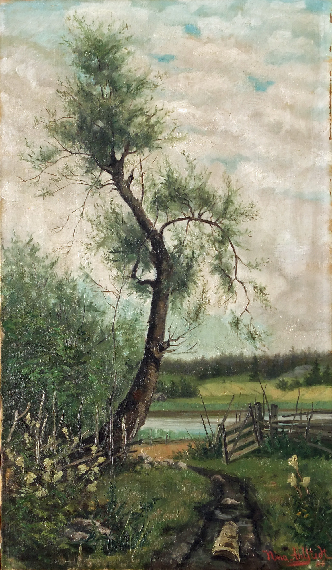 Grinden (The Gate), oil painting by the Finnish artist Nina Ahlstedt painted during her stay with the Önningeby artists colony on the island of Åland in 1886